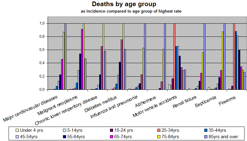 Deaths by age group (see List of causes of death by rate)